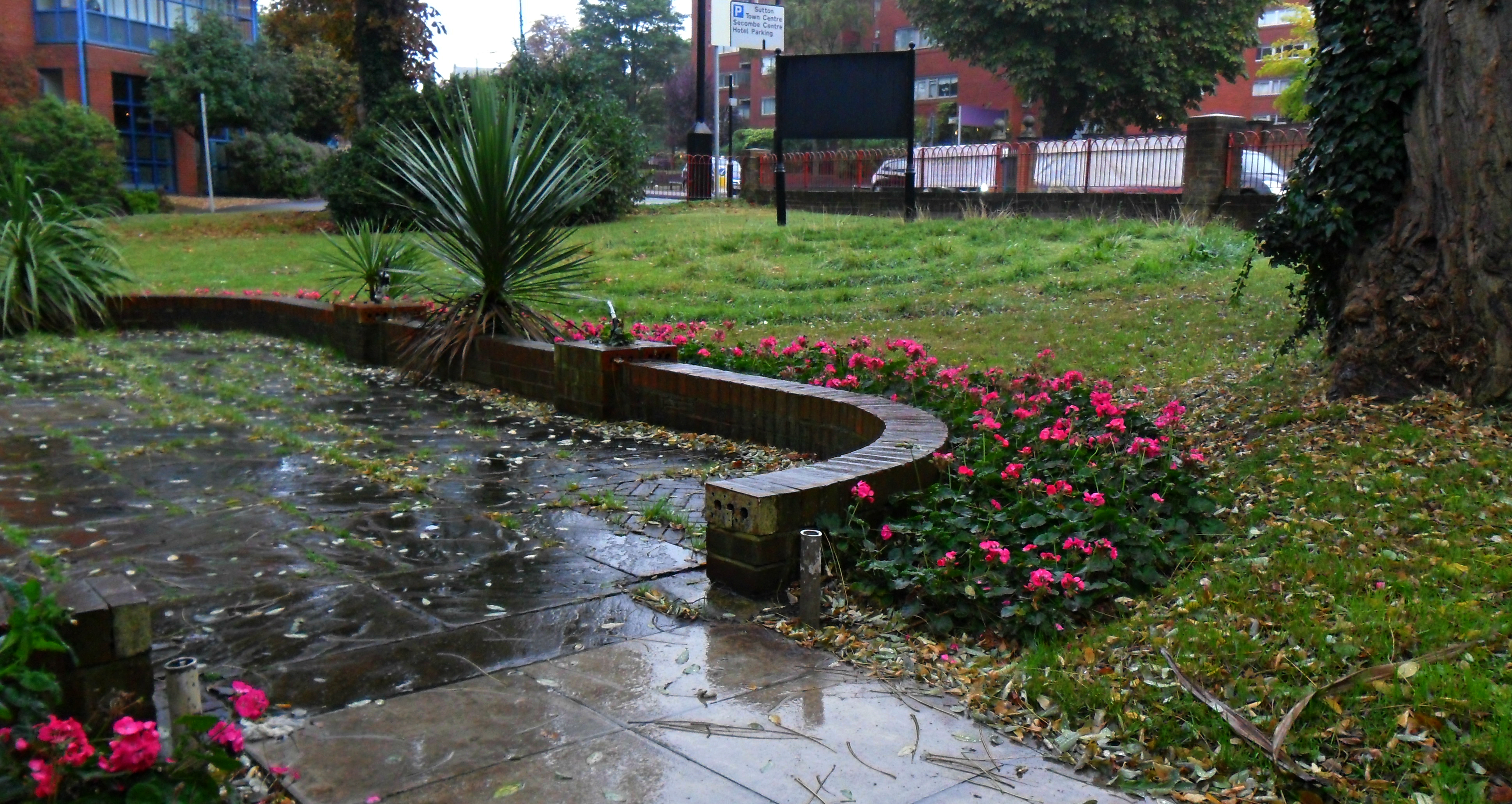 The garden in front of the Secombe Theatre, Sutton, Surrey in the London Borough of Sutton. The theatre was opened in 1984 by former Goon Show member Sir Harry Secombe who lived in Sutton for 32 years. The theatre was built in 1937 as a Christian Scientist Church.